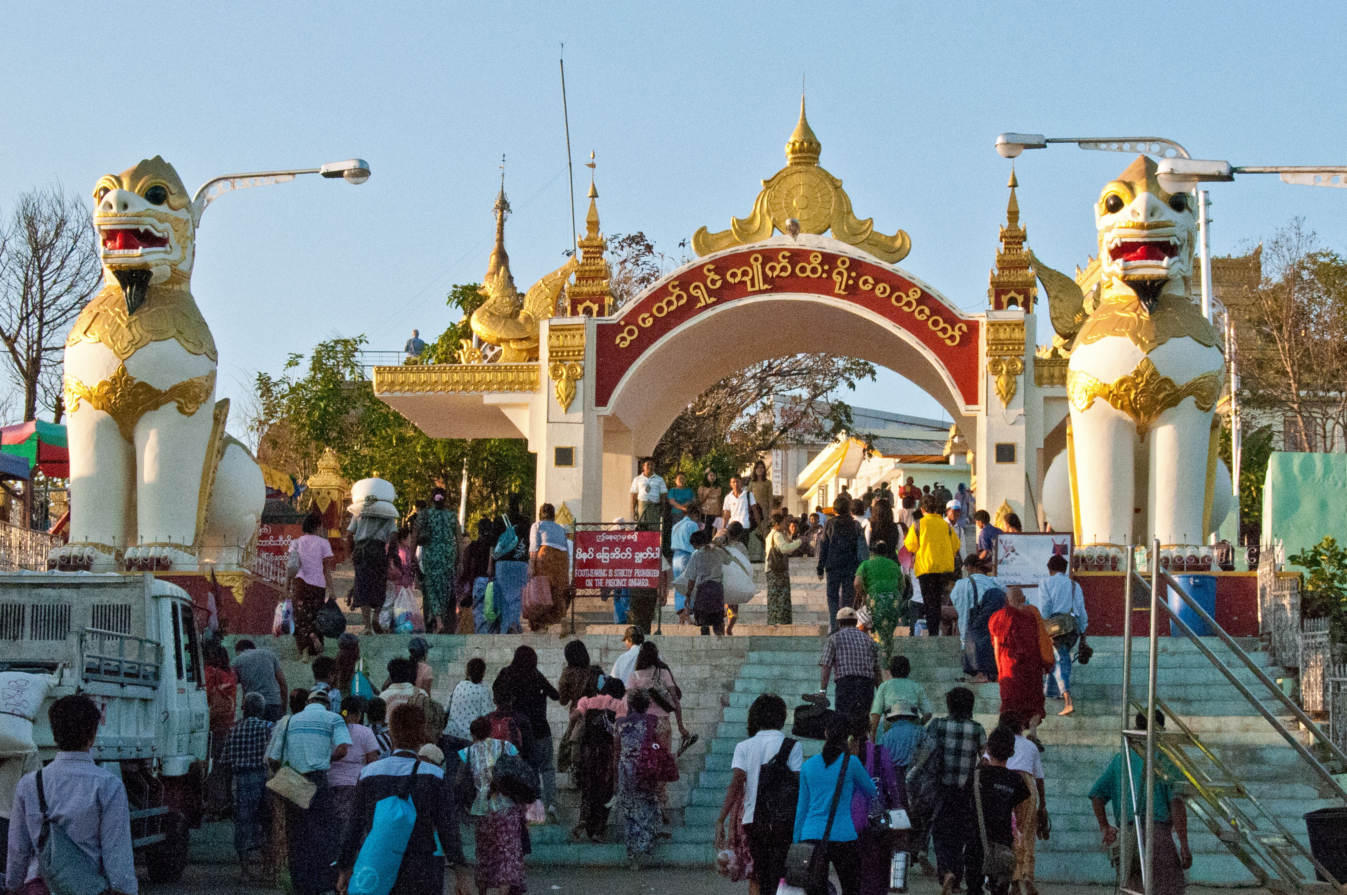 Entrance to the Kyaiktiyo pagoda complex